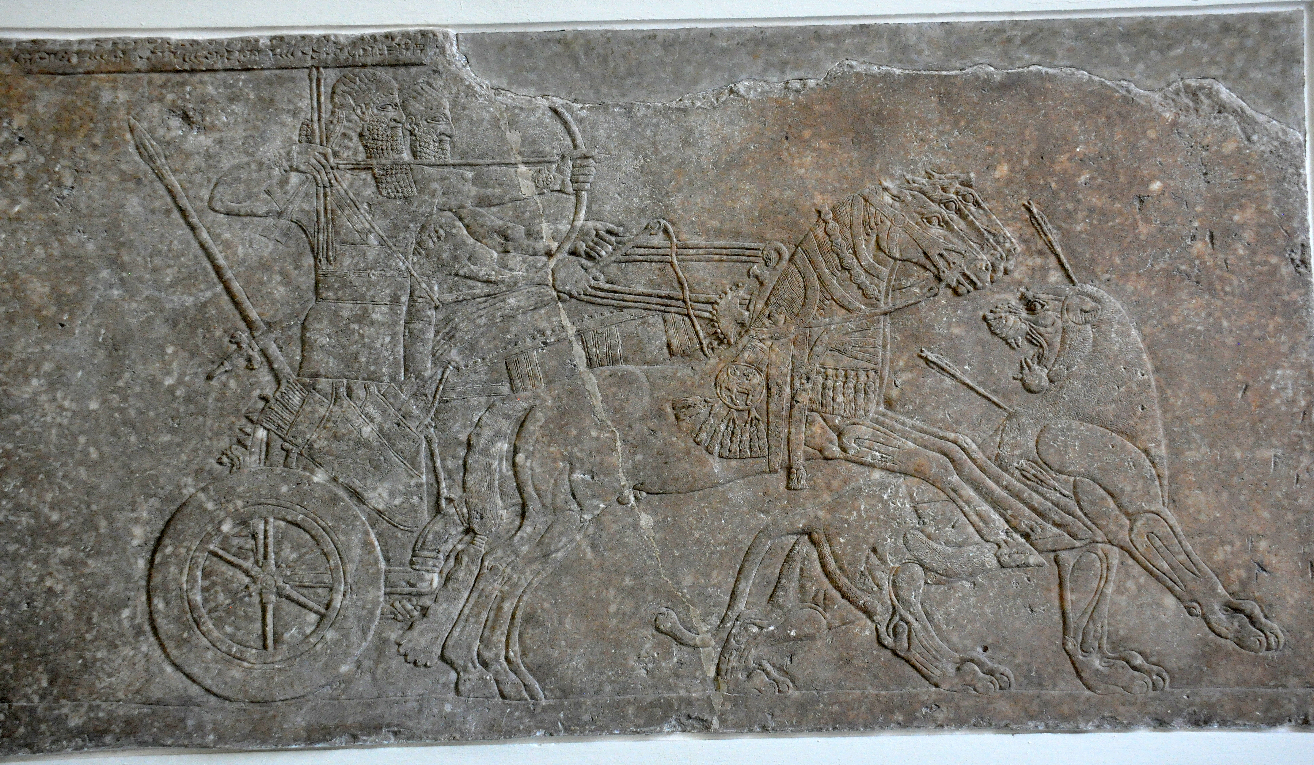 A lion-hunting scene of the Assyrian king Ashurnasirpal II. Neo-Assyrian Period, reign of Ashurnasirpal II, 883-859 BC. From the north-west palace at Nimrud (ancient Kalhu), in modern-day Iraq. Alabaster bas-relief. The Pergamon Museum, Berlin, Germany.